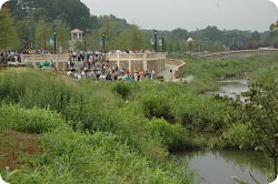 photo of stream restoration on urban Section of Little Sugar Creek Greenway, Charlotte, NC